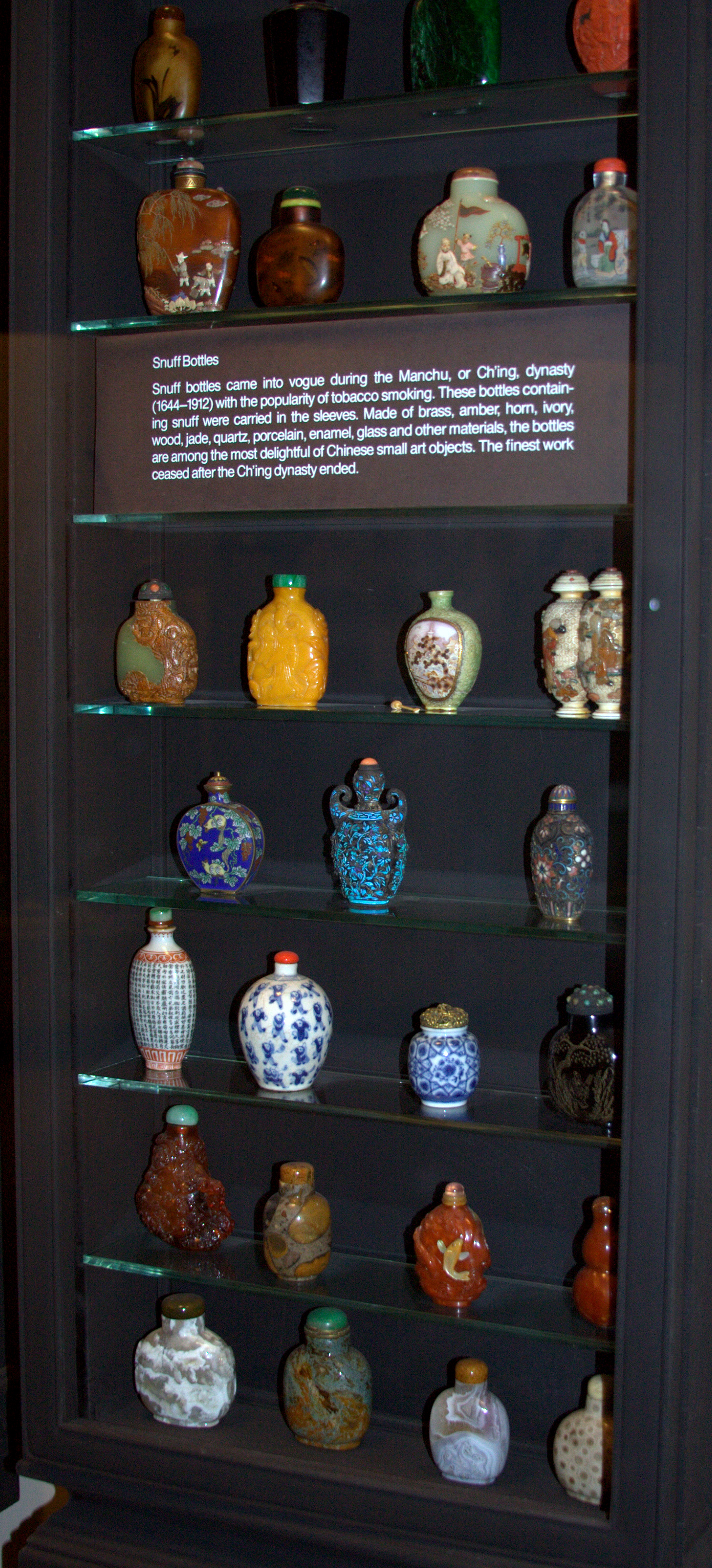 Collection of snuff bottles at the American Museum of Natural History in New York City.